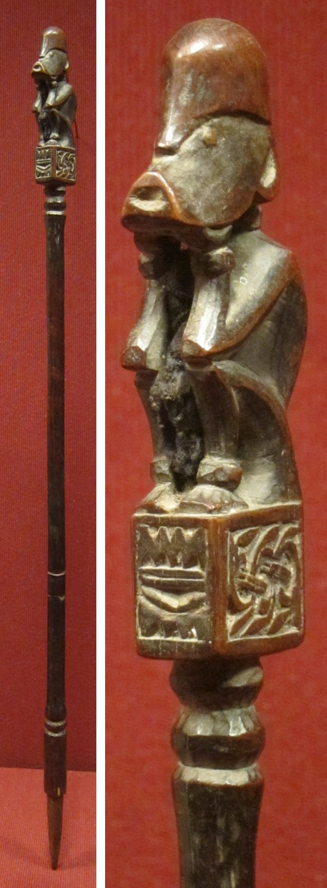 Pig charm (tuntun), Borneo, Sarawak, Iban, 20th century, iron wood, Honolulu Museum of Art